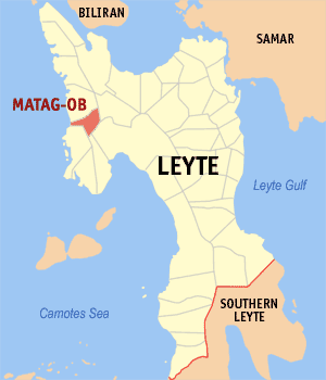 Map of Leyte showing the location of Matag-ob